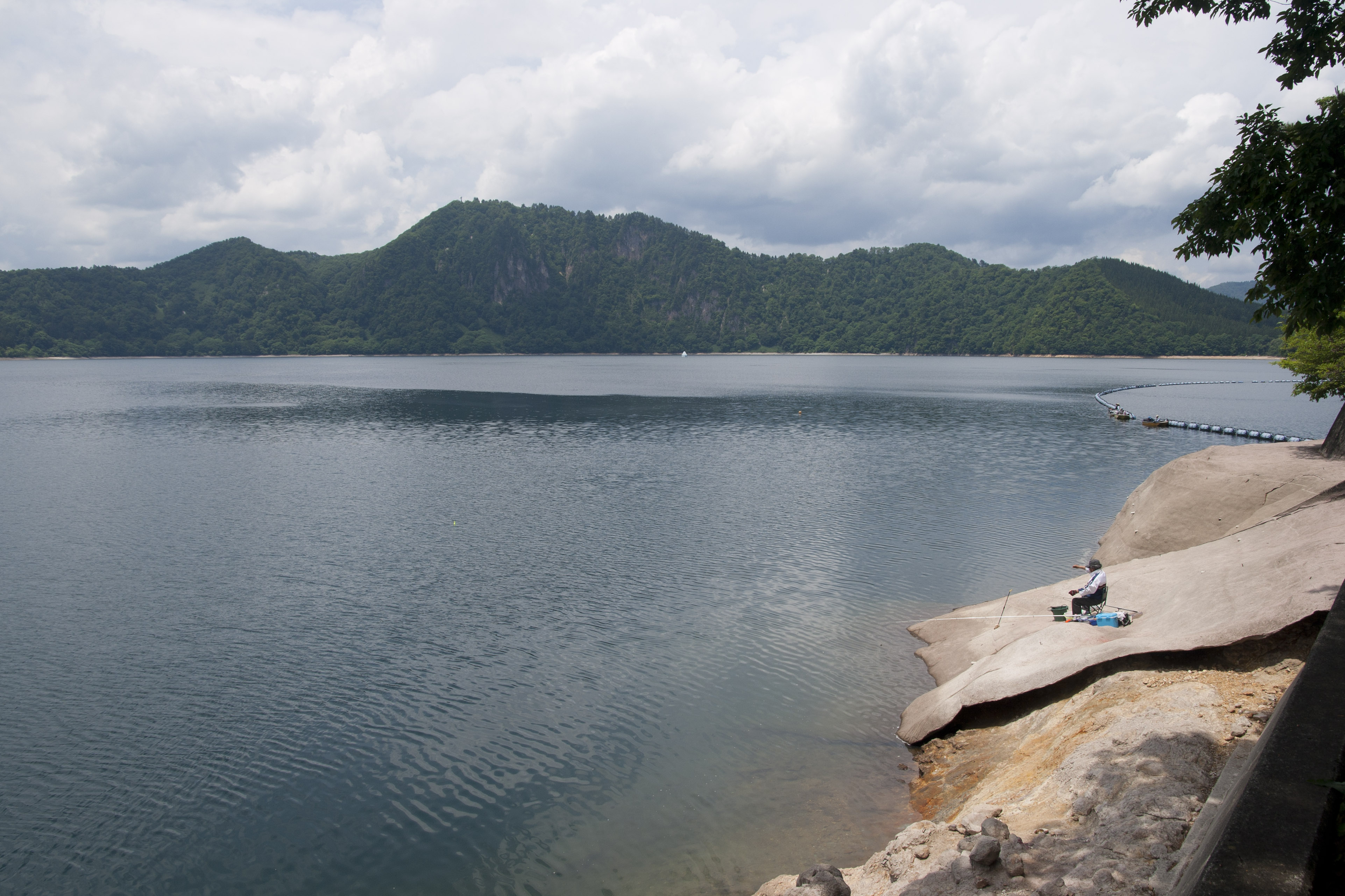 Lake Numazawa, Kaneyama Town, Fukushima Prefecture, Japan